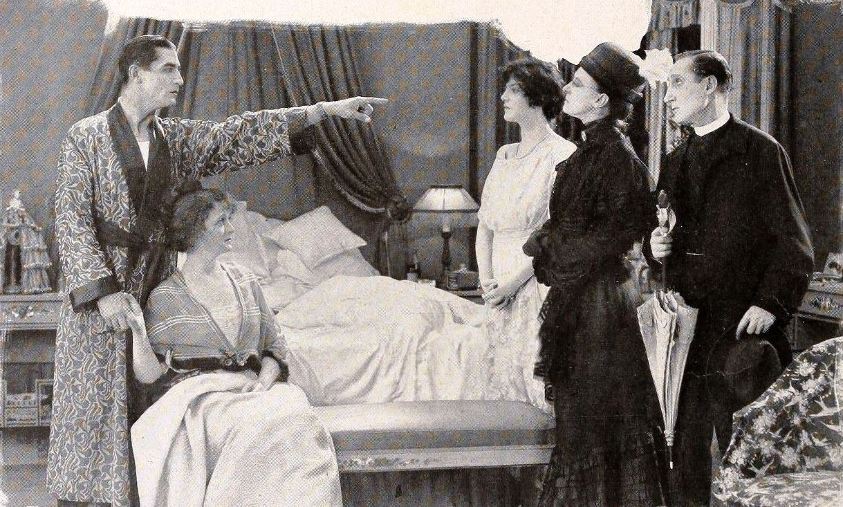 Still from the American silent film The Misleading Widow (1919) from page 63 of the September 1919 Shadowlands. The identity of the British officer as the widow's missing husband and their marriage is revealed to guests from the dinner. From the left, James Crane as the husband, Billie Burke as the widow Betty Taradine, Madelyn Clare as romantic interest Penelope Moon, Mrs. Priestly Morrison as the reverand's wife Tabitha Liptrott, and Fred Hearn as Reverend Ambrose Liptrott.